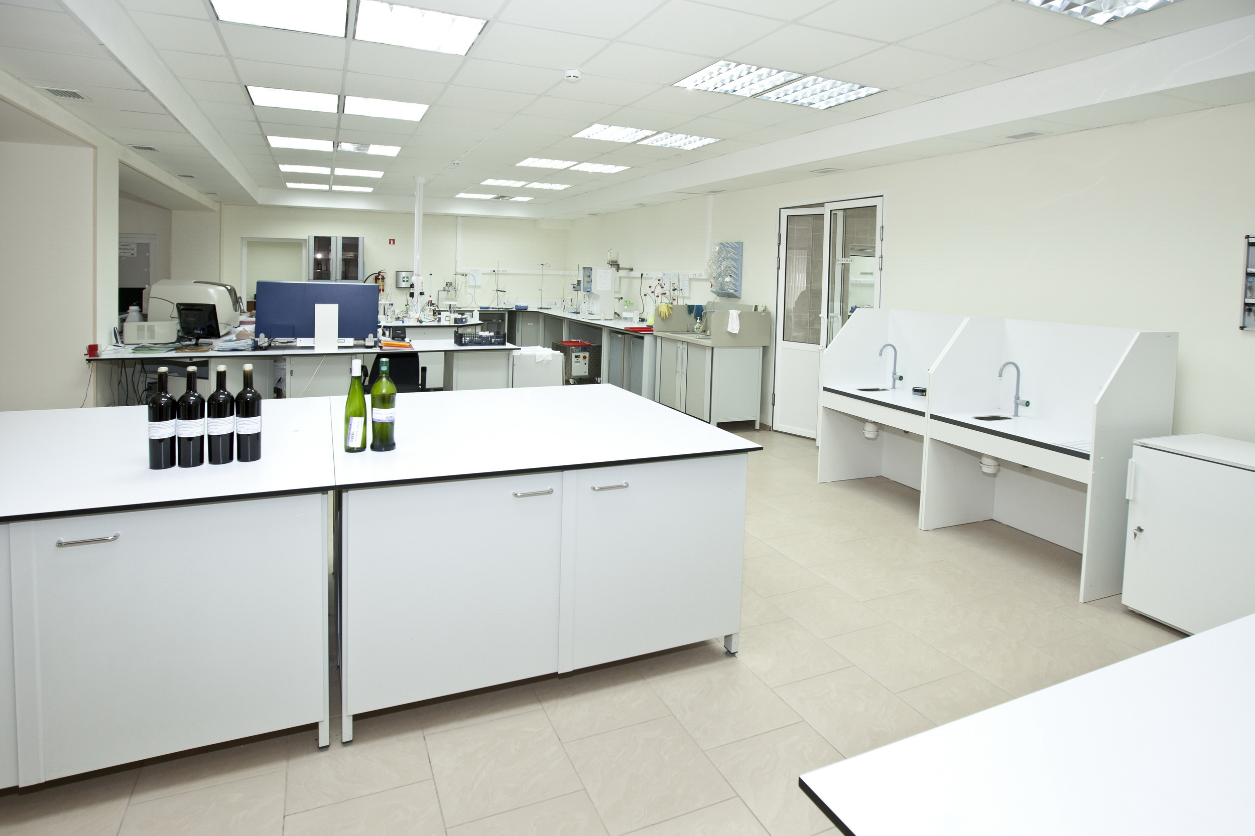 Laboratory of "Lefkadia" winery